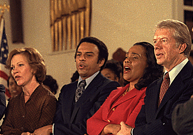 Jimmy Carter and Rosalynn Carter sing with Andrew Young and Coretta Scott King, together with Martin Luther King, Sr and other civil rights leaders during a visit to Ebenezer Baptist Church in Atlanta